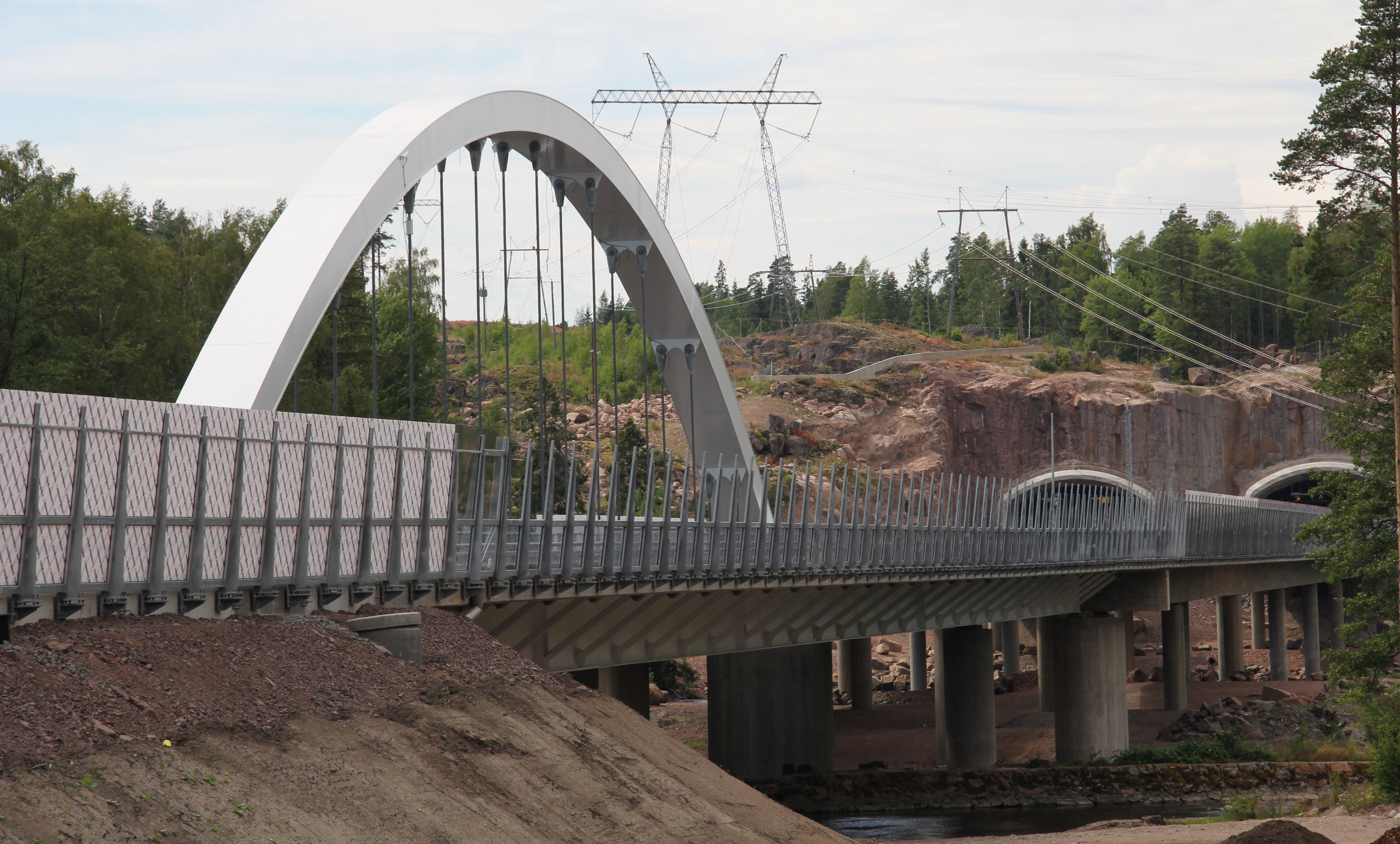 Ahvenkoski highway bridgea, European route 18, Pyhtää and Loviisa, Finland. - Bridges and road under construction, opened in september 2014.